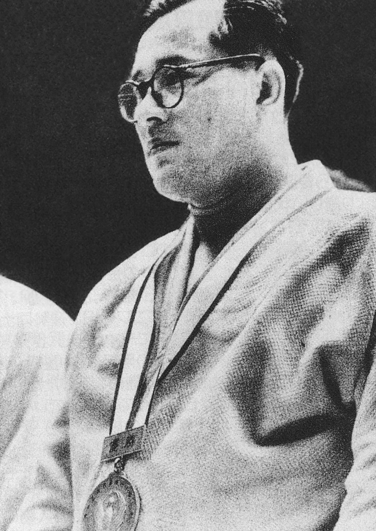 A Japanese judoka, Shōkichi Natsui, after winning the World Judo Championships in 1956.